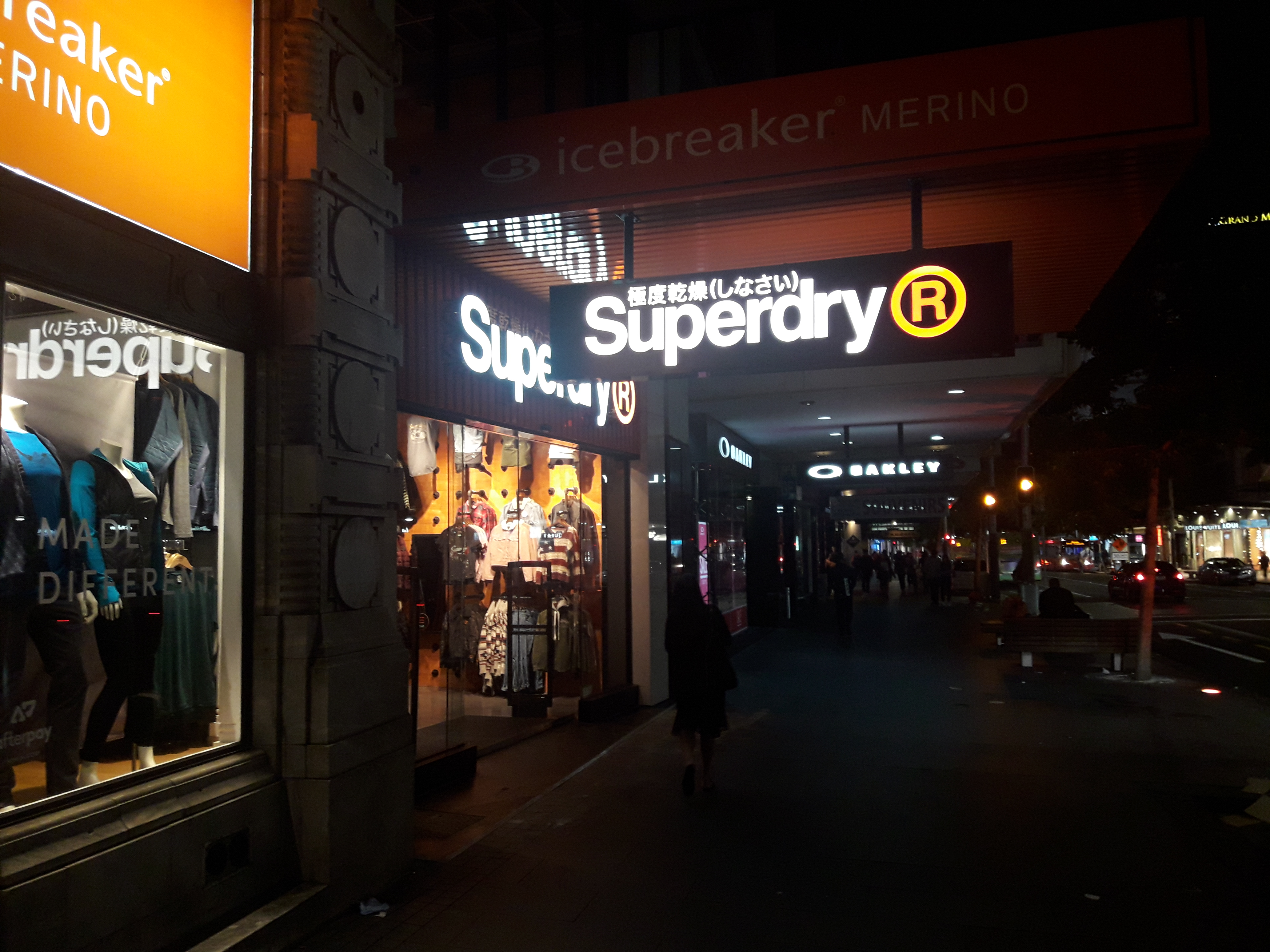 Superdry store in Auckland New Zealand